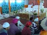 Gurudwara in Athens